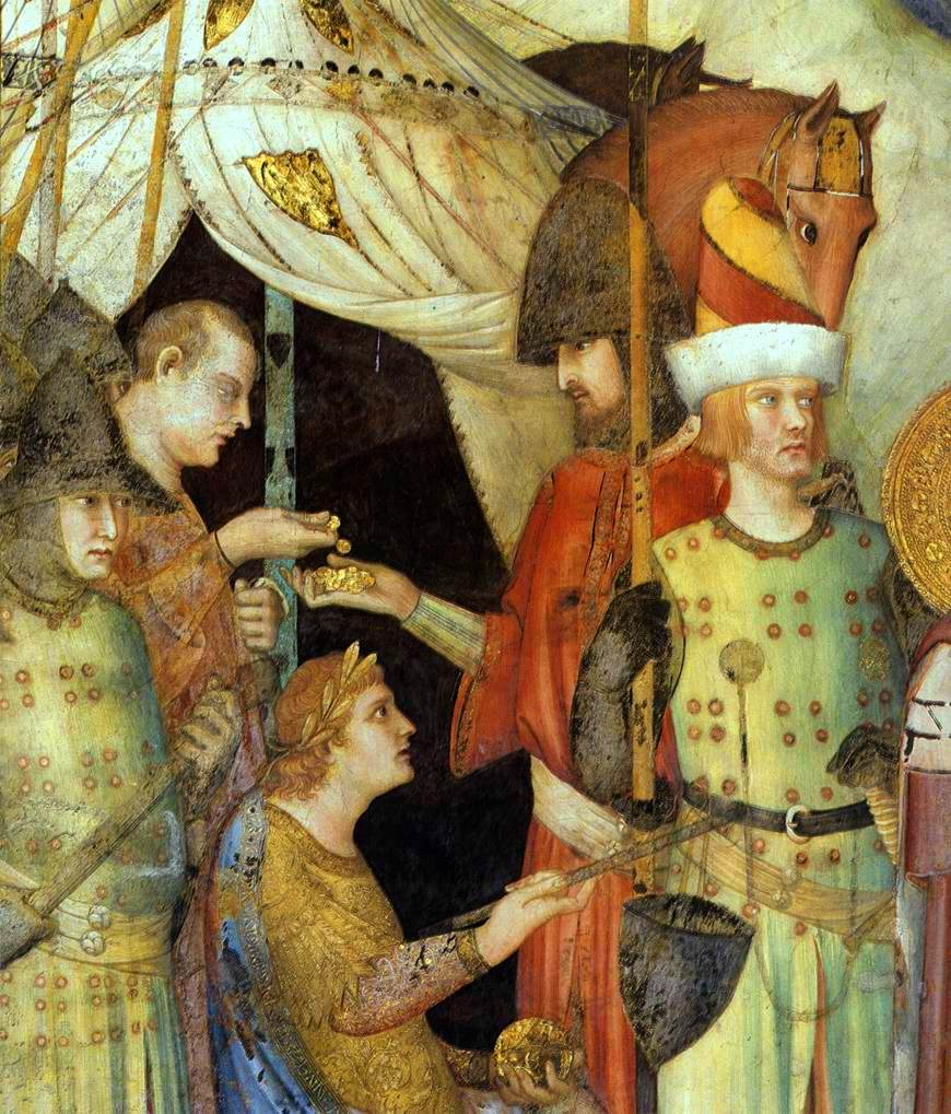 St Martin renounces his weapons, detail, fresco, capella San Martino, Assisi